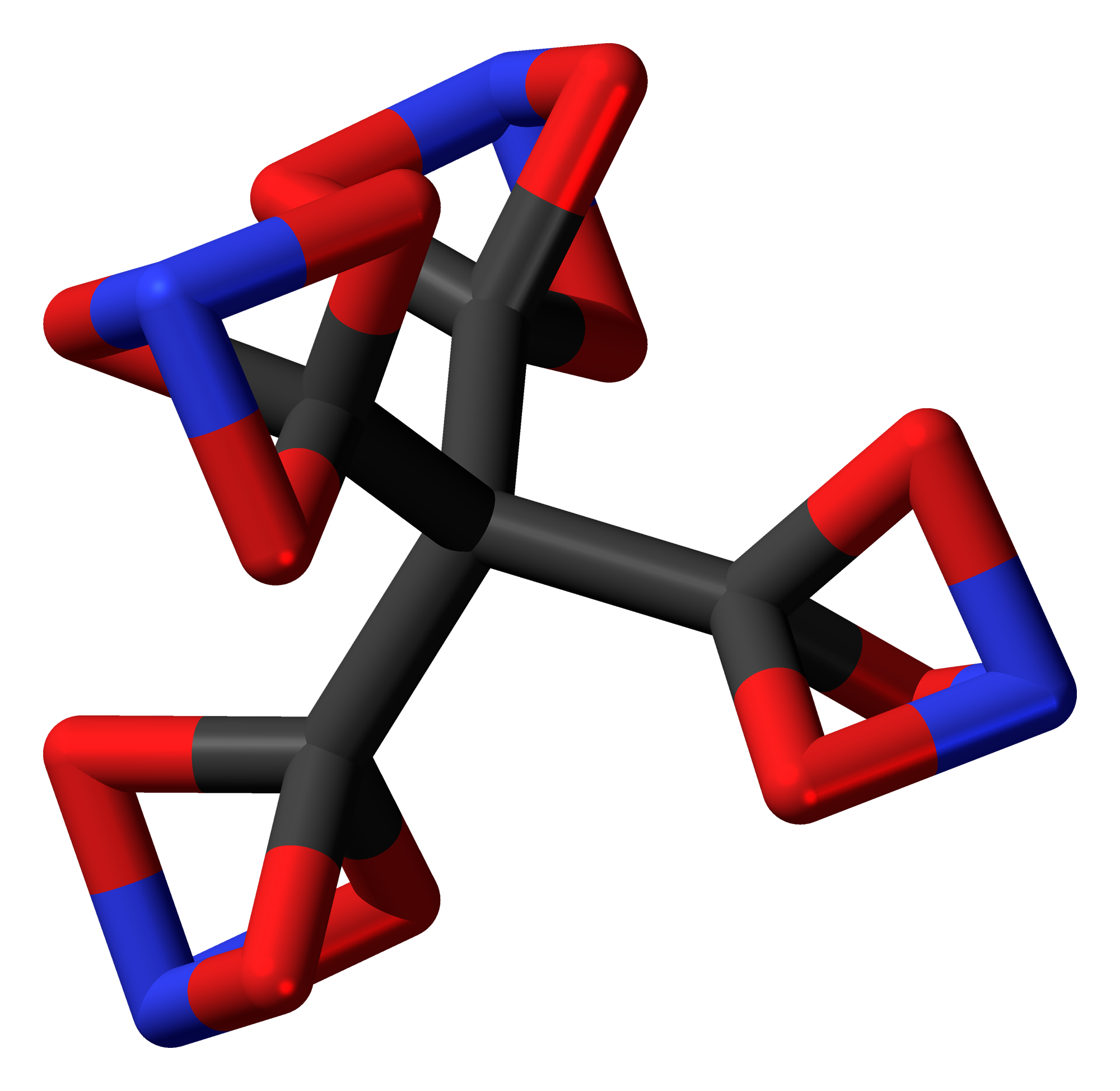 Stick model of the tetranitratoxycarbon molecule, a hypothetical explosive discovered by a 10-year-old girl. Color code Carbon, C: black Oxygen, O: red Nitrogen, N: blue